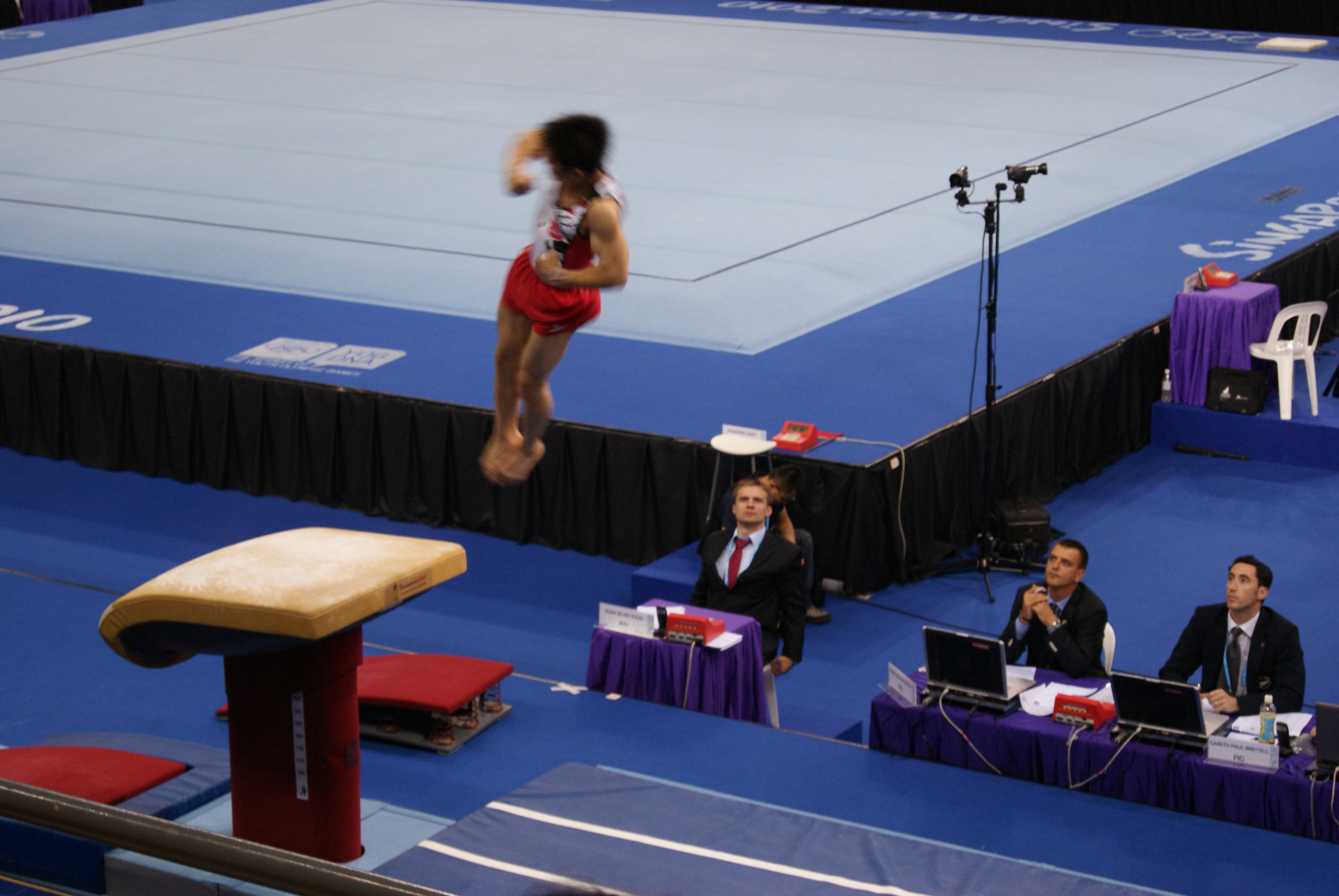 Japanese gymnast Yuya Kamoto performing a vault during Men's Qualification – Subdivision 1 of the artistic gymnastics competition at the 2010 Summer Youth Olympics at Bishan Sports Hall, Singapore.